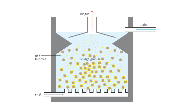 Schematic vieuw of the Upflow Anaerobic Sludge Blanket Reactor UASB